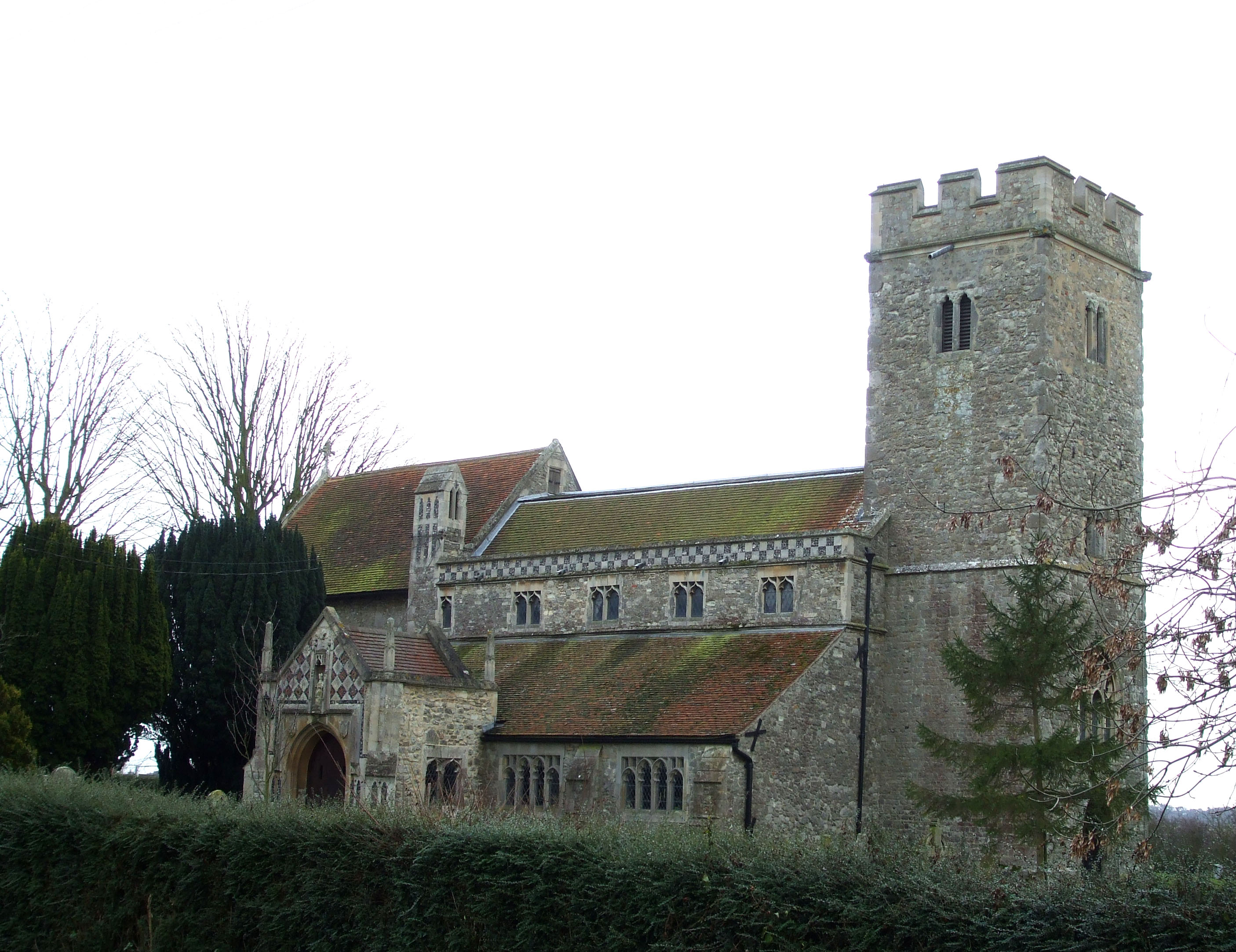 St Nicholas Church, Rawreth, Essex.